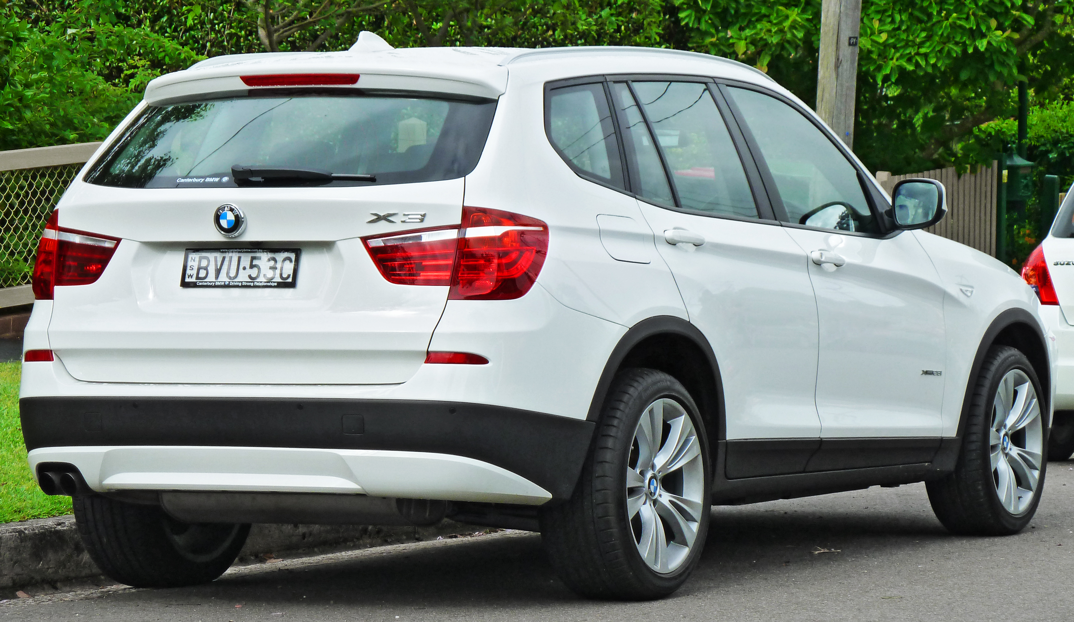 2011 BMW X3 (F25) xDrive28i wagon. Photographed in Gordon, New South Wales, Australia.